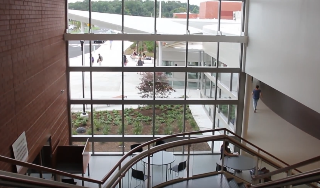 gtandstair